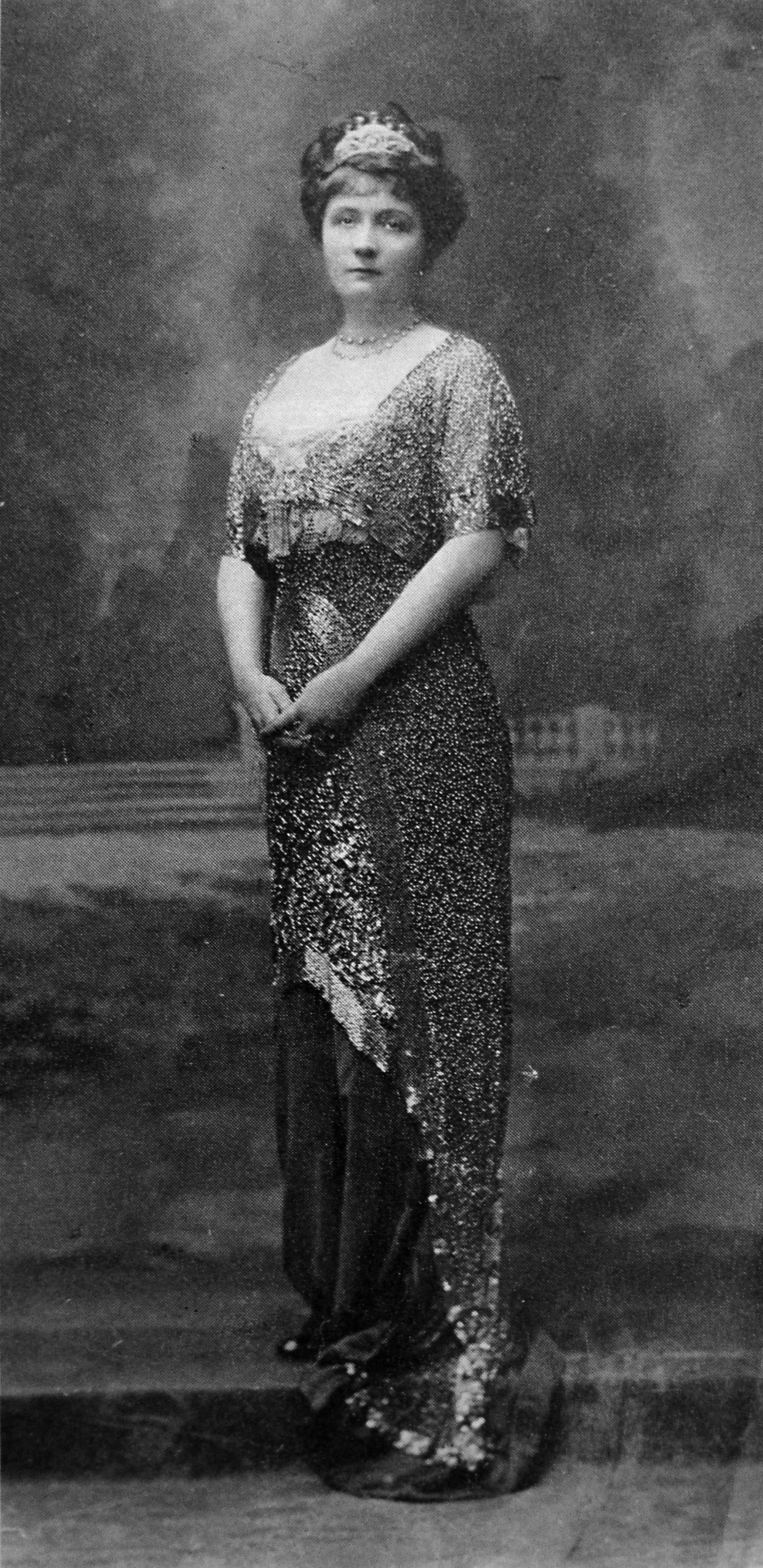 Photo portrait of Henriette Caillaux.